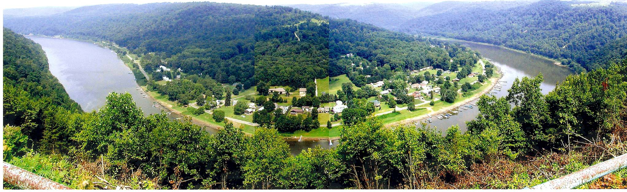 Brady's Bend, Pennsylvania (also known as Bradys Bend) is where Captain Samuel Brady and his band of scouts in mid-June 1779 made a daring rescue of Peter and Margaret Henry who had been captured for two weeks by marauding Seneca and Munsee Indians. The view is a composite of three photos of Brady's Bend on the Allegheny River, taken by the Powell's, descendants of Peter Henry, on Monday, August 7, 2006 around the middle of the day from about 1,800 ft. above sea level.